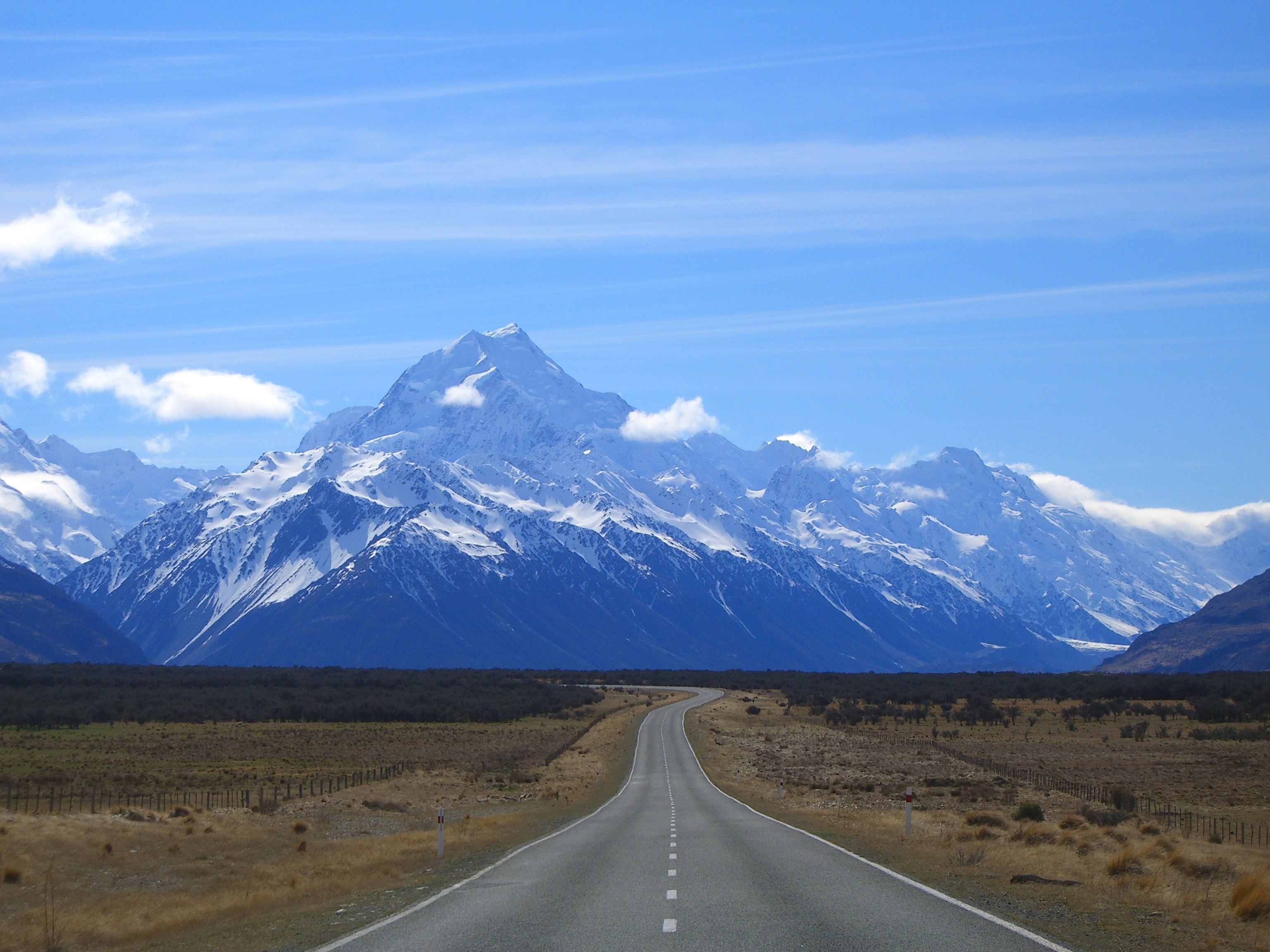 State Highway 80 leading towards Mount Cook in the Southern Alps of New Zealand